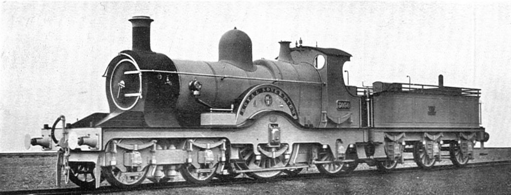 Fig. 2 Dean's "Singles" for the Great Western Railway As rebuilt with a leading bogie